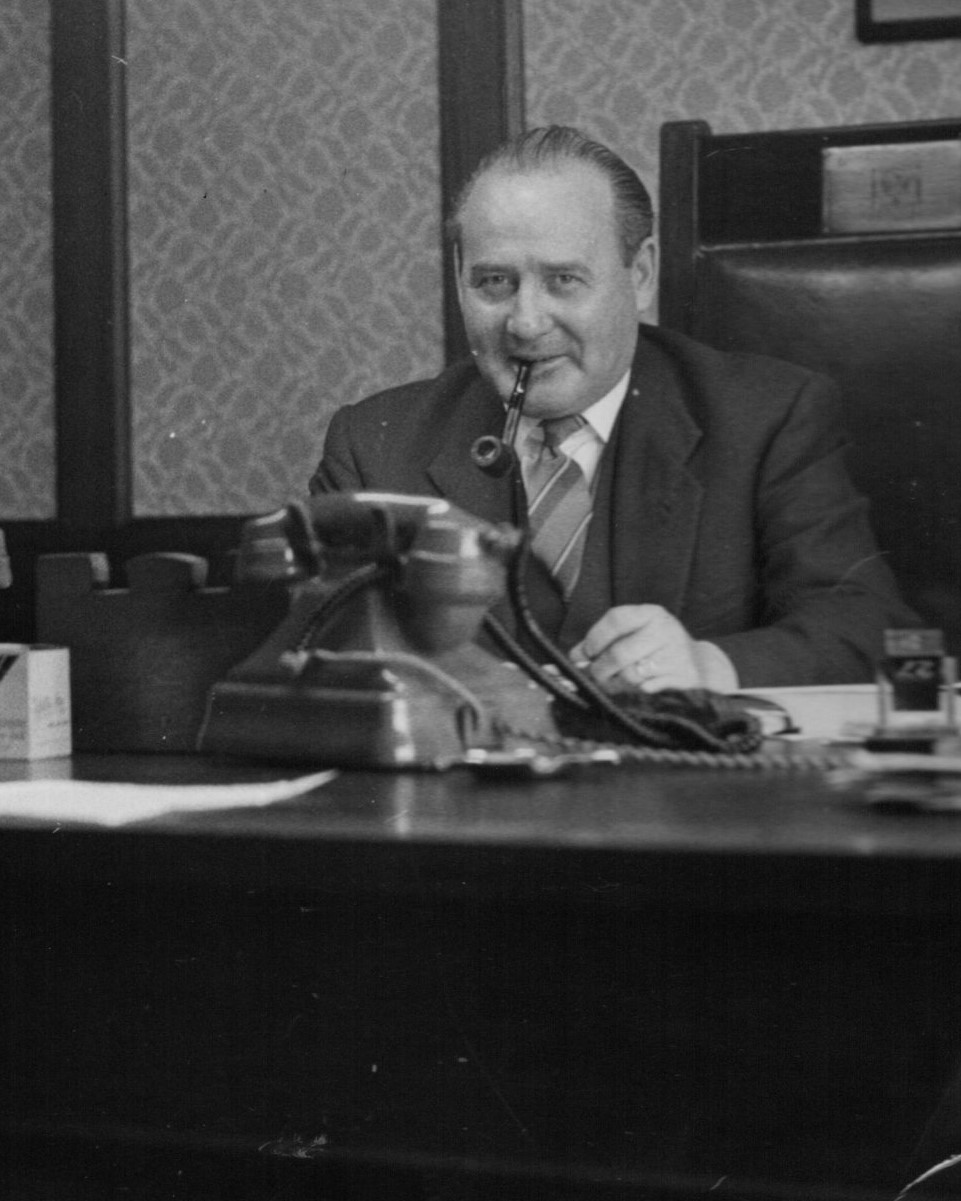 George Lowthian in his office at The Builders, Clapham Common, South London